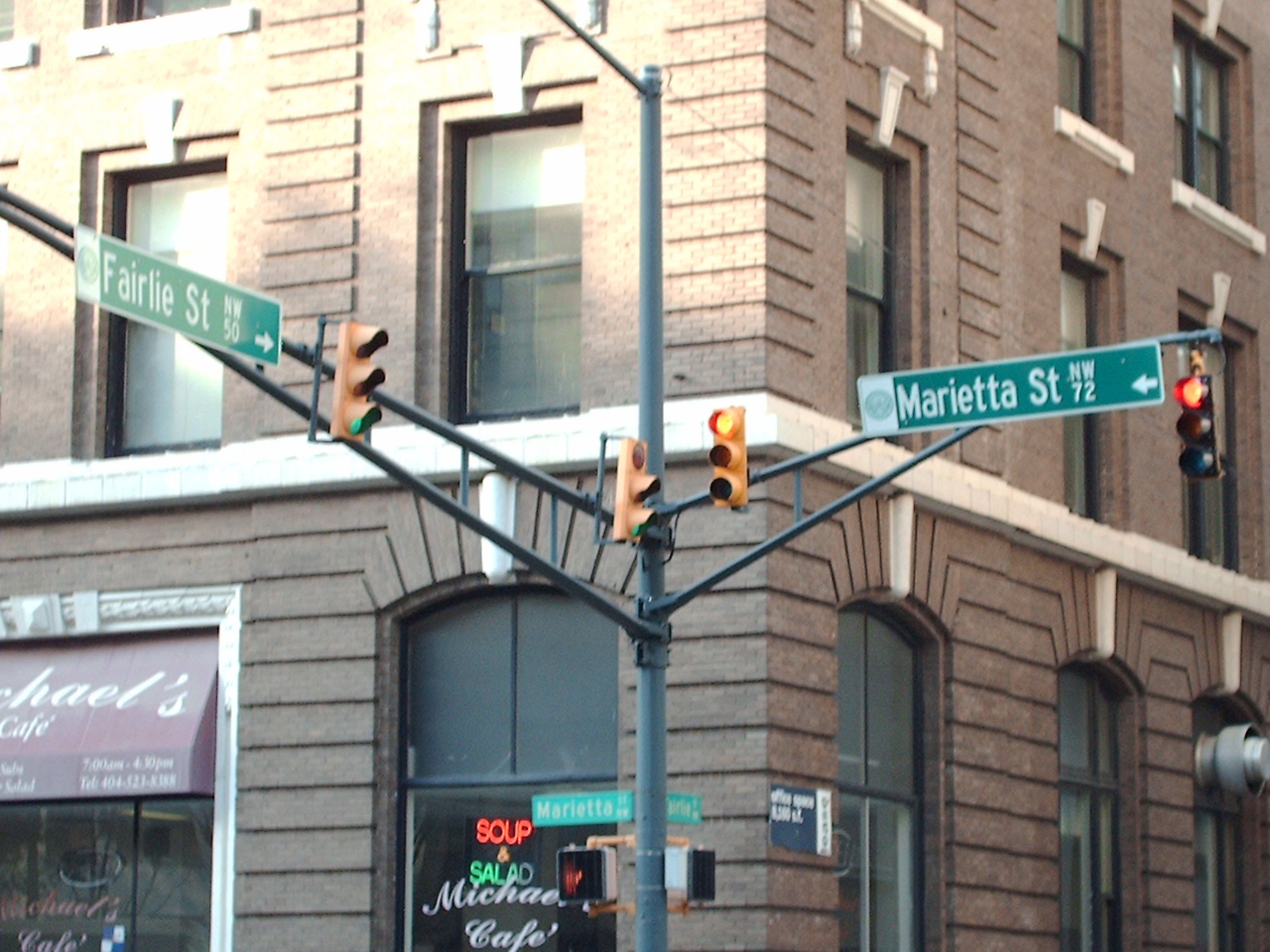 One of Downtown Atlanta's original streets, Marietta Street NW. Marietta Street is one of the seven original streets that Atlanta was formed around before being incorporated under its current name in 1847.